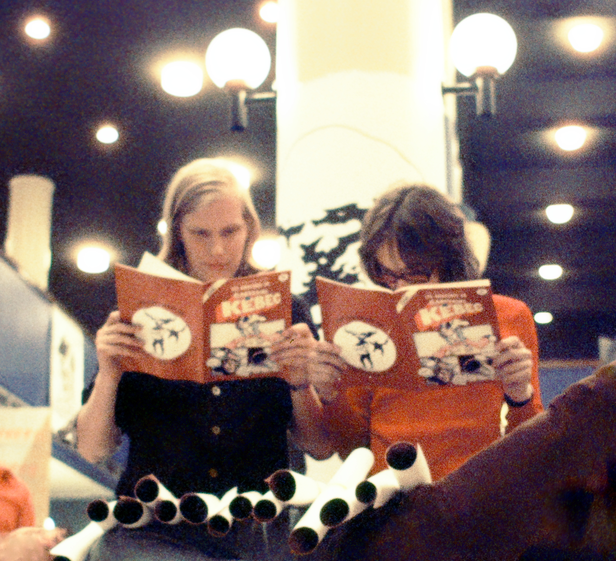 Jacques Hurtubise (aka Zyx) and Pierre Fournier reading Capitaine Kébec in 1973. Supplementary technical data: digitization of a 35mm slide. Original camera: Nikon F with 43-86mm Nikkor lens.